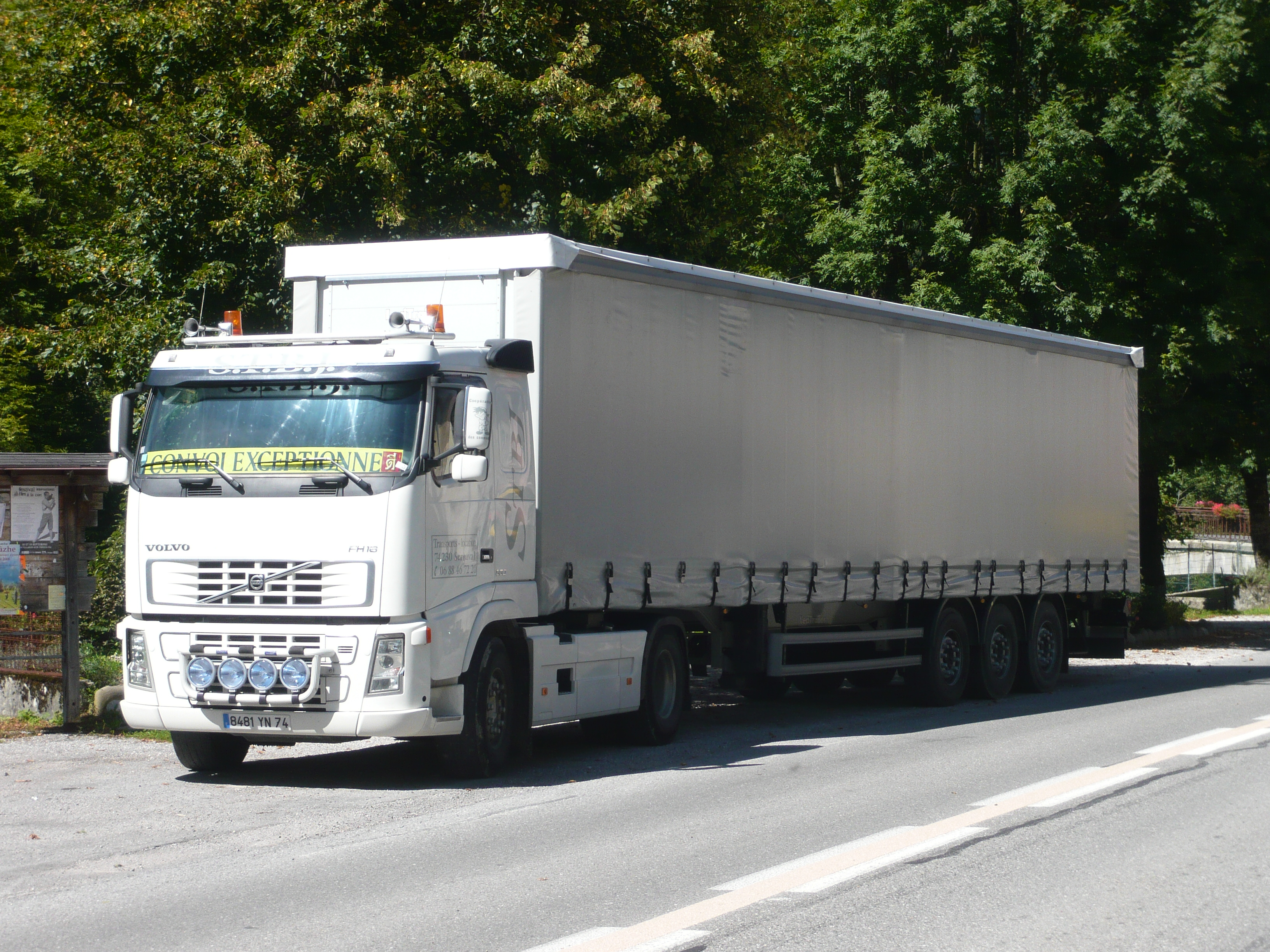 A Volvo truck in Entremont, France. Un semi-remorque Volvo Trucks à Entremont (Haute-Savoie).